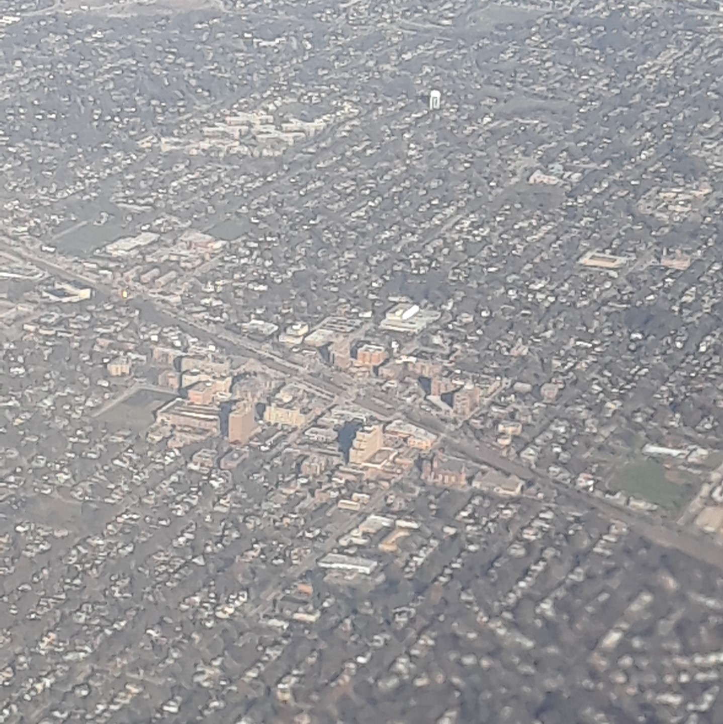 Downtown Arlington Heights, Illinois